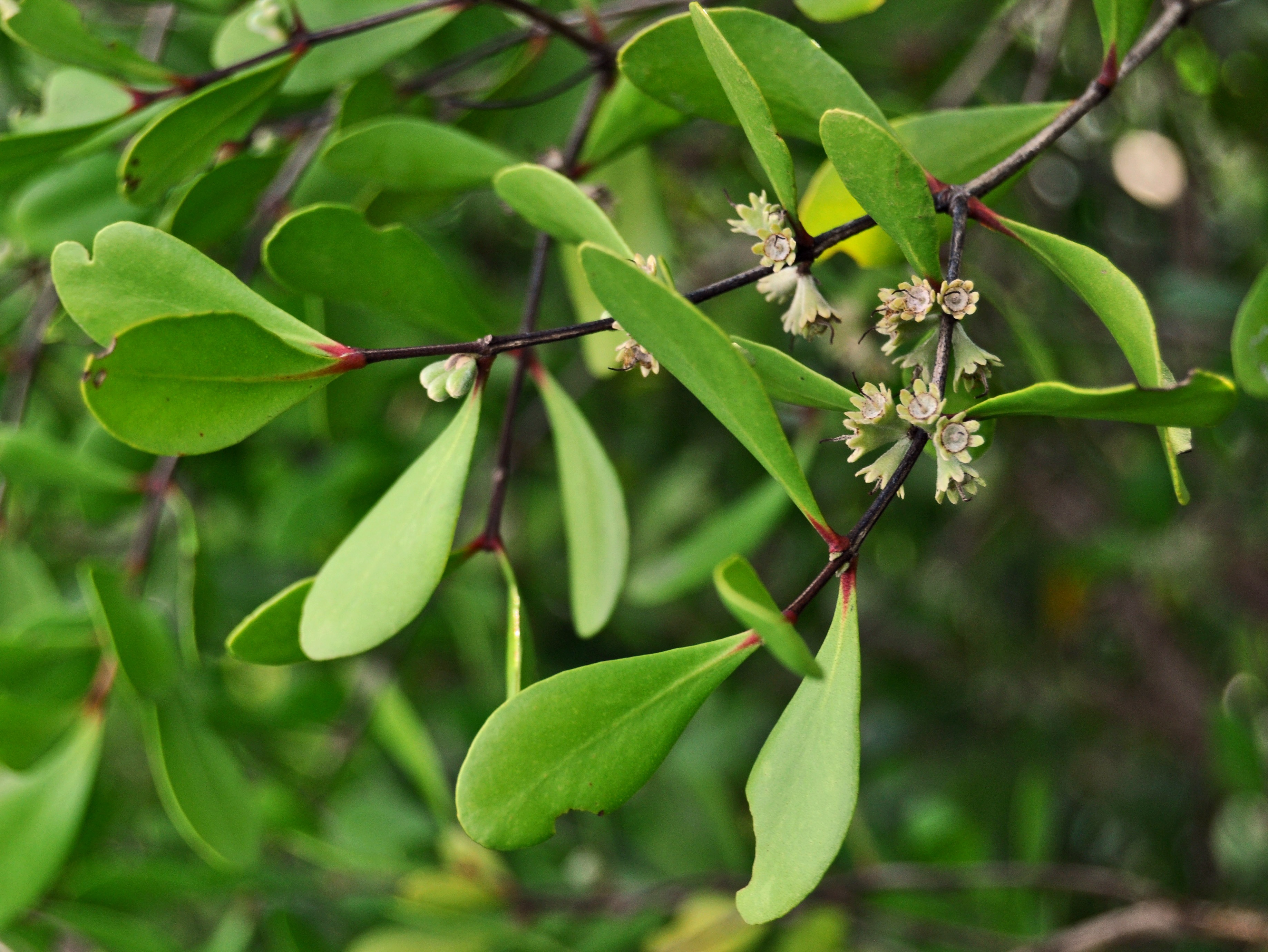 Osbornia octodonta, twigs, leaves & flowers. From Sangatta, East Kalimantan, Indonesia